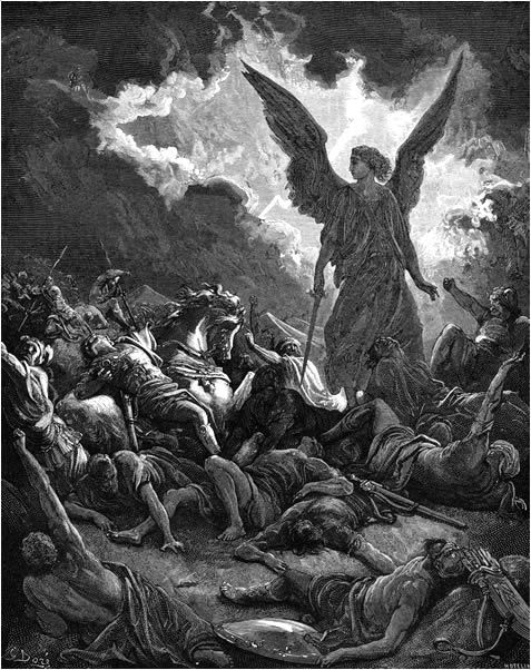 DESTRUCTION_OF_SENNACHERIB'S_HOST